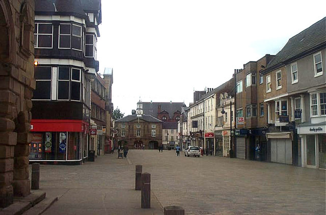 Pontefract, Market Place. This is the view north east along Market Place, Pontefract, from the Junction with Valley Road. The building in the centre of the street in the photograph is the old Town Hall.